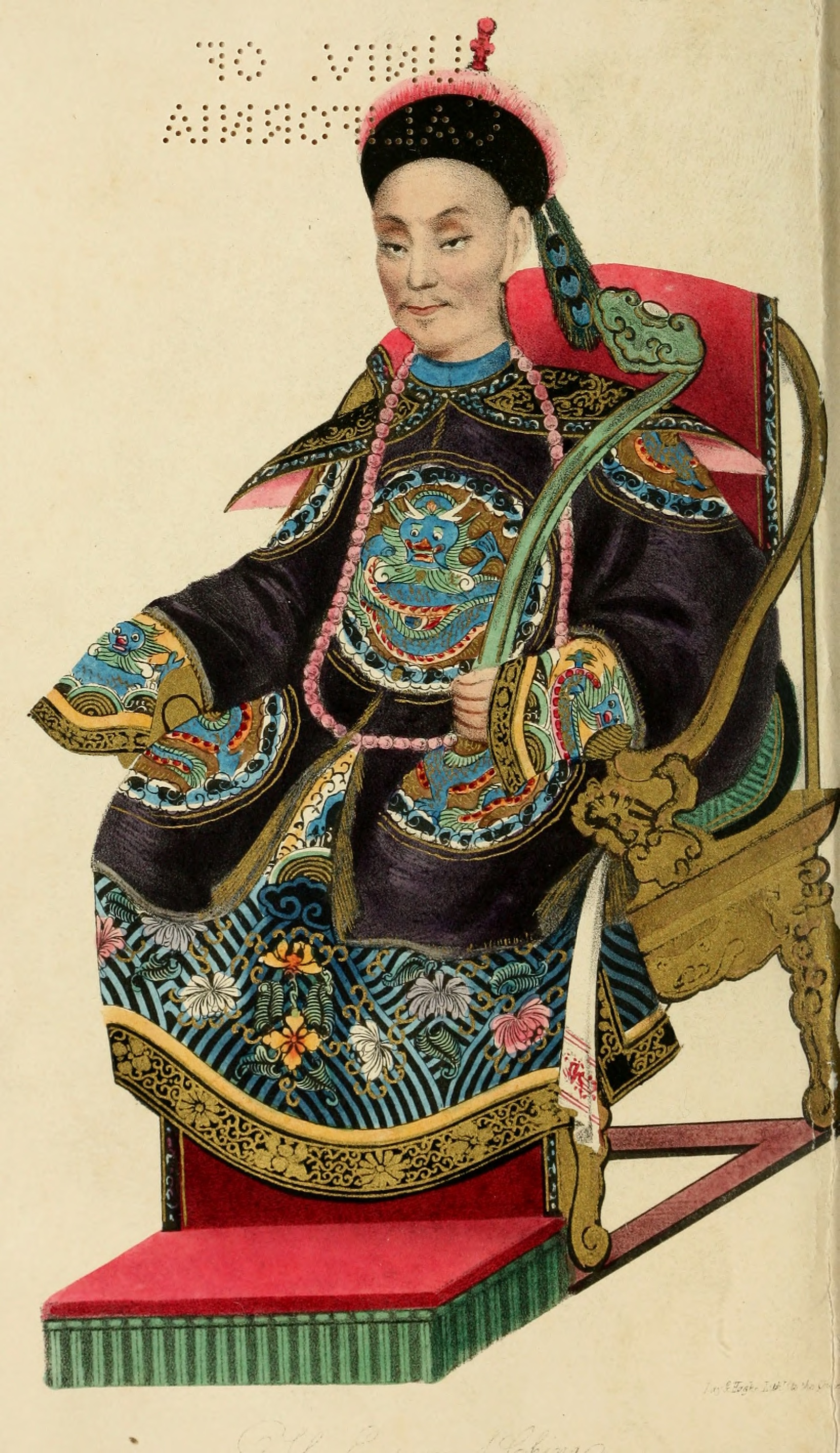 Inside cover of Narrative of the expedition to China by John Elliot Bingham. It depicts Daoguang Emperor of China.